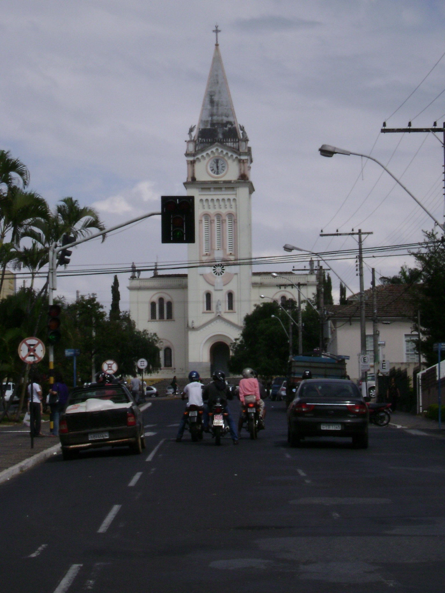 Igreja Matriz de São Domingos, em Araxá, Minas Gerais, Brasil.